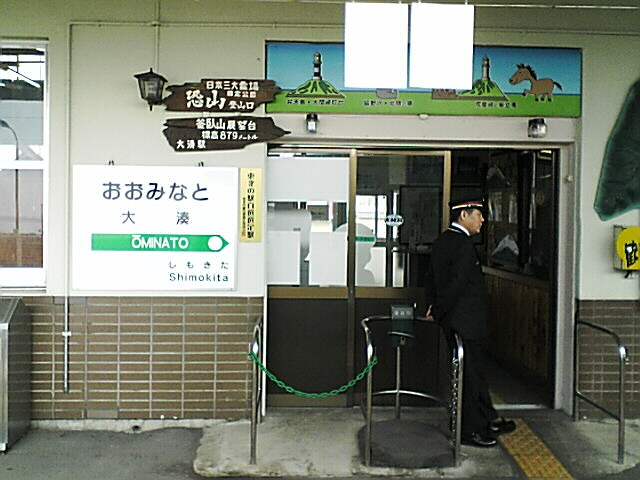 Ōminato Station ticket wicket, on the Ōminato Line, Mutsu, Aomorija:大湊駅